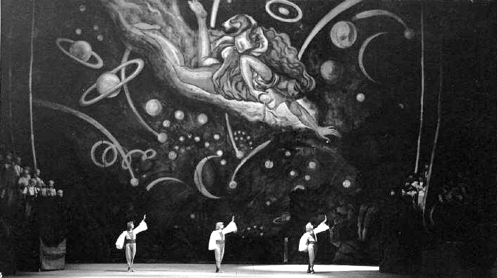 Honegger's Amphion at La Scala (Teatro alla Scala). Music by Arthur Honegger, libretto by Paul Valéry.